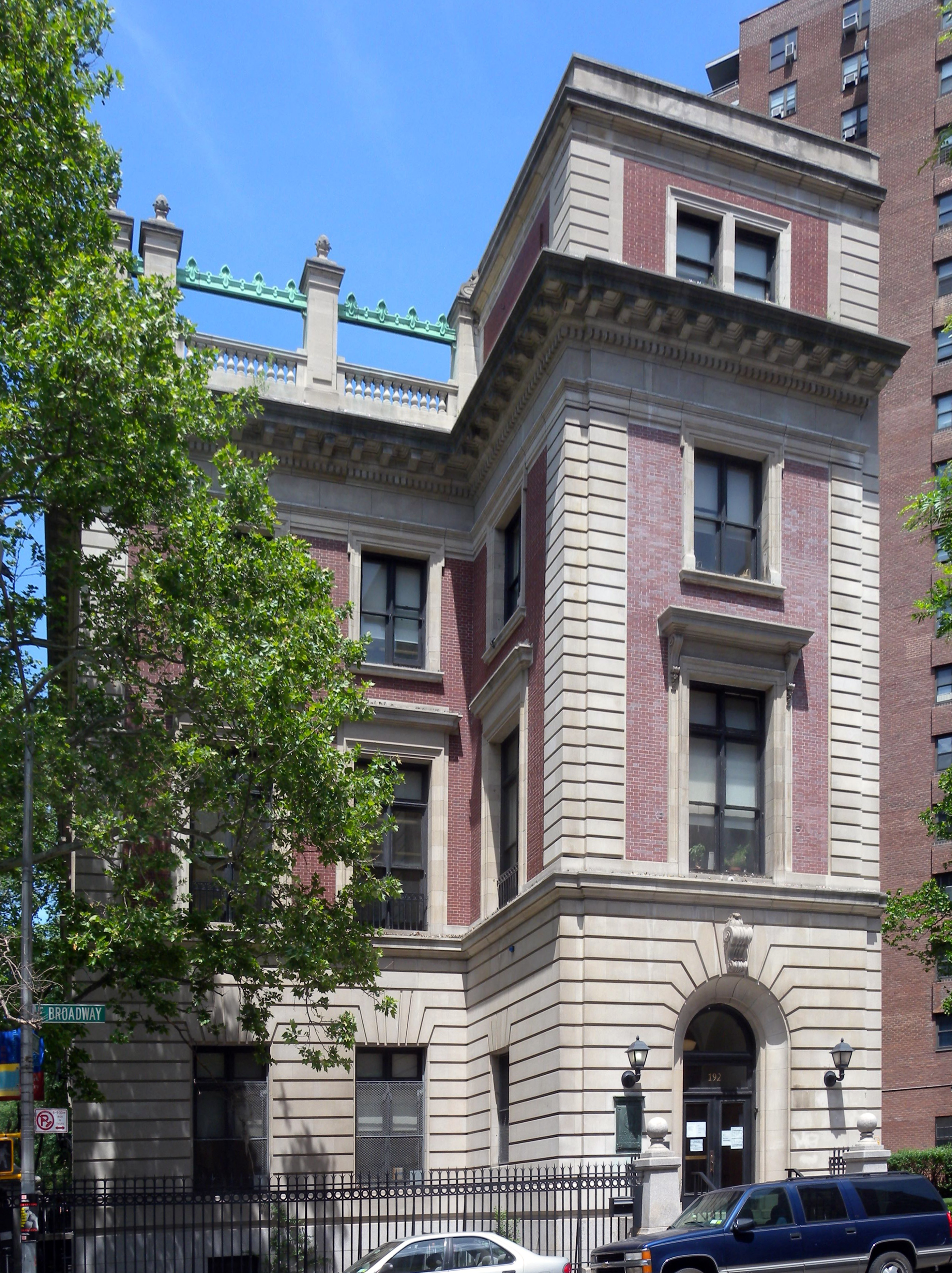 Looking north across East Broadway at Seward Park Library on a sunny early afternoon. ZIP 10002.